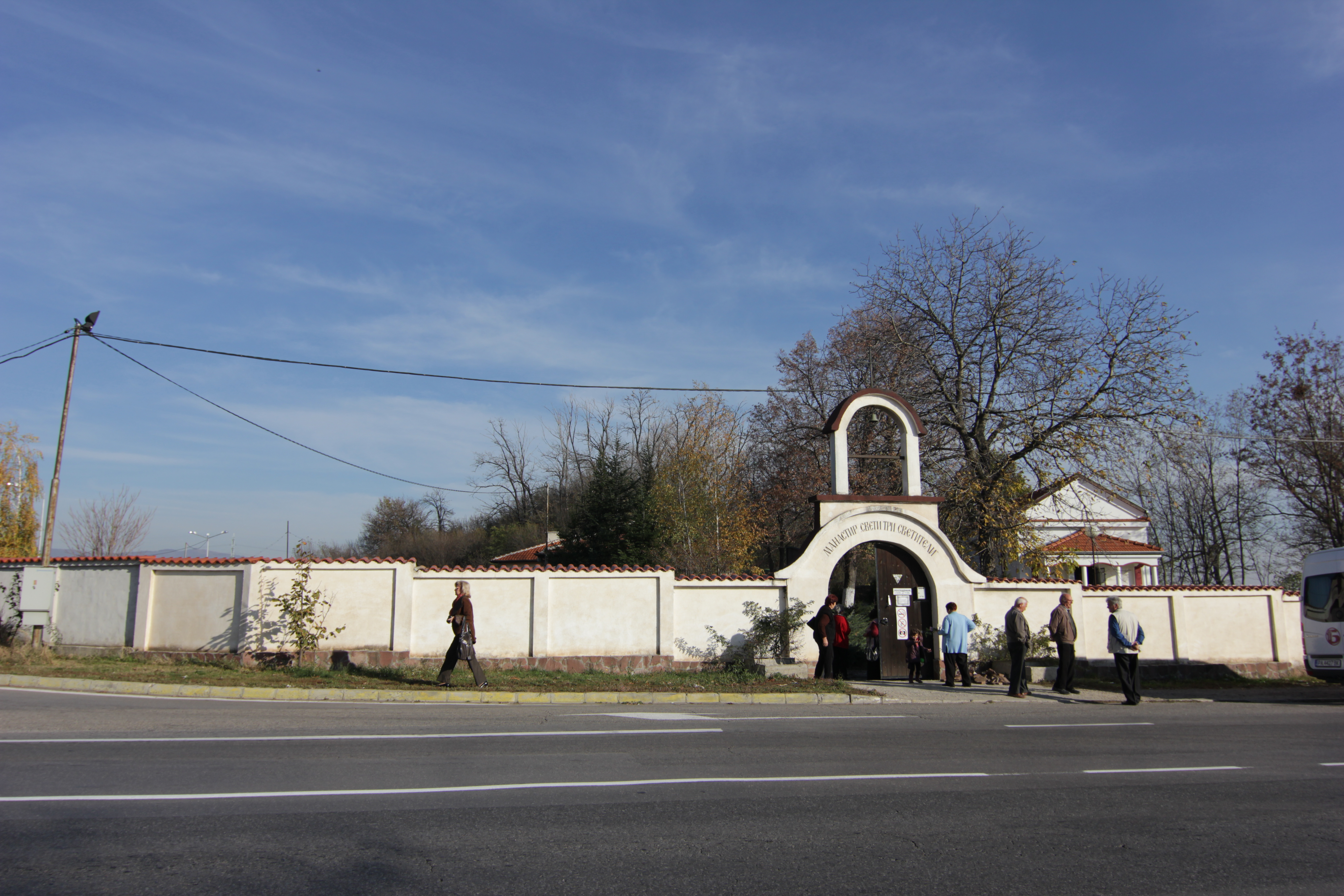 Chepintsi Monastery